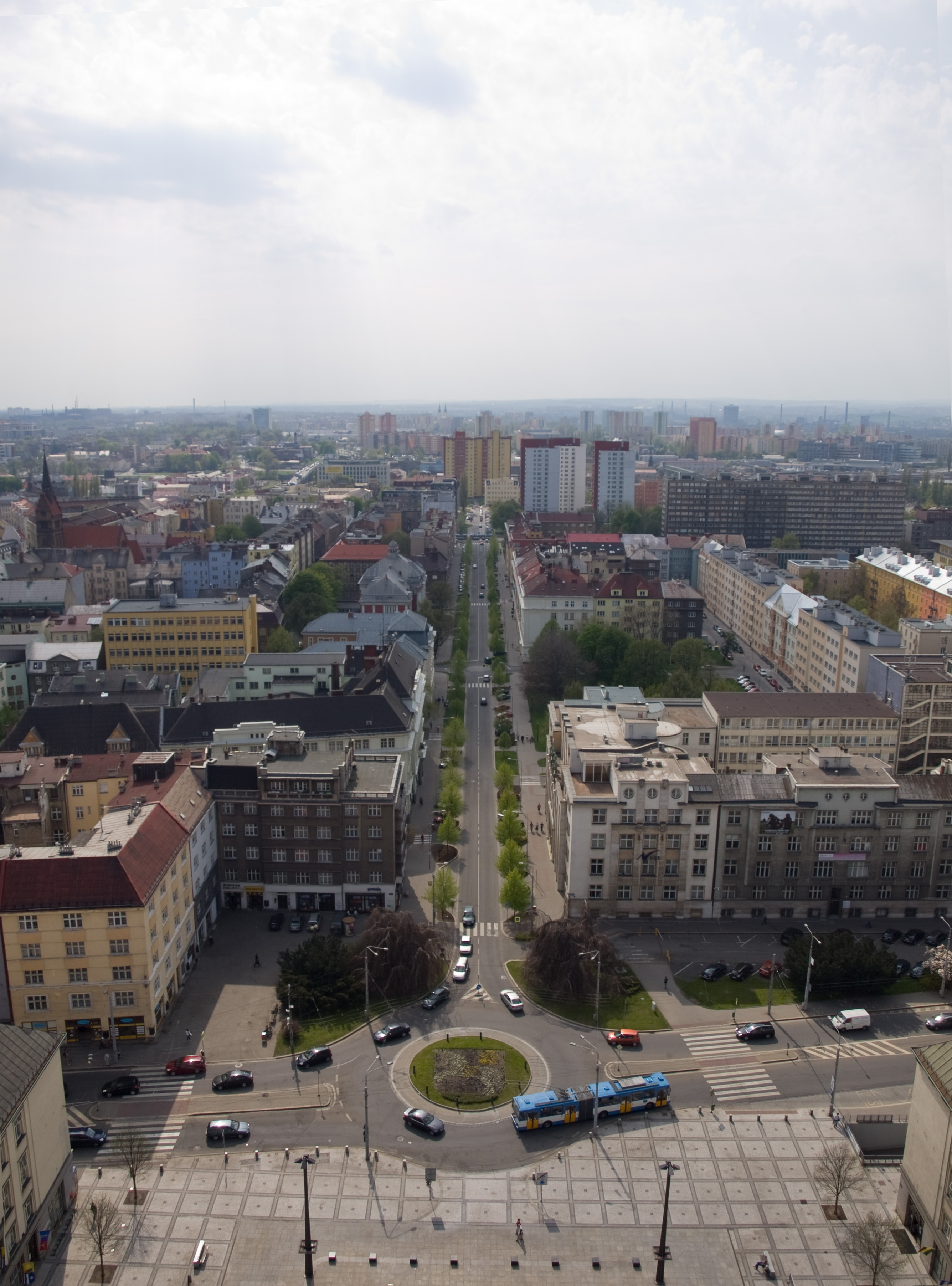 Views from Nová radnice, Prokešovo square and 30th April street, Moravská Ostrava